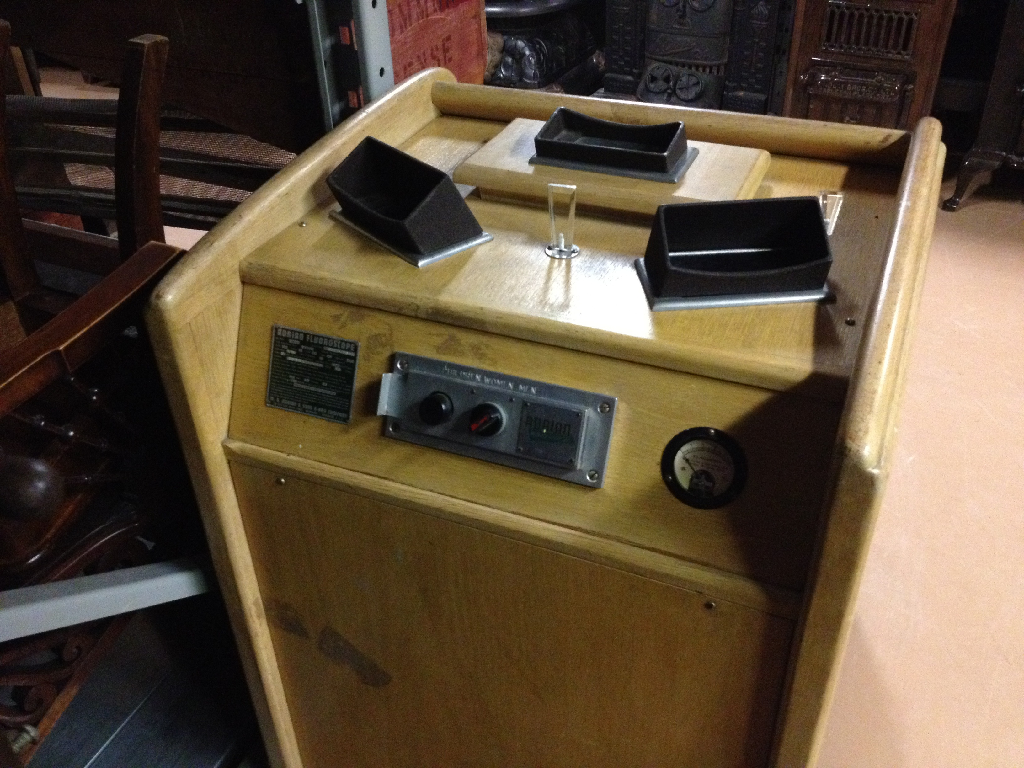 This decommissioned Adrian Fluoroscope is part of the collection of the Dufferin County Museum in Ontario, Canada. This image shows the operator's controls and three viewing screens on the top of the device. On the opposite side is a low platform with two half-circle holes cut into the vertical back surface for inserting the fronts of the shoes. The device emitted lots of radiation when operated, so it was sent to Ottawa, where it was rendered harmless by removing the x-ray tube head. Shoe-fitting fluoroscope